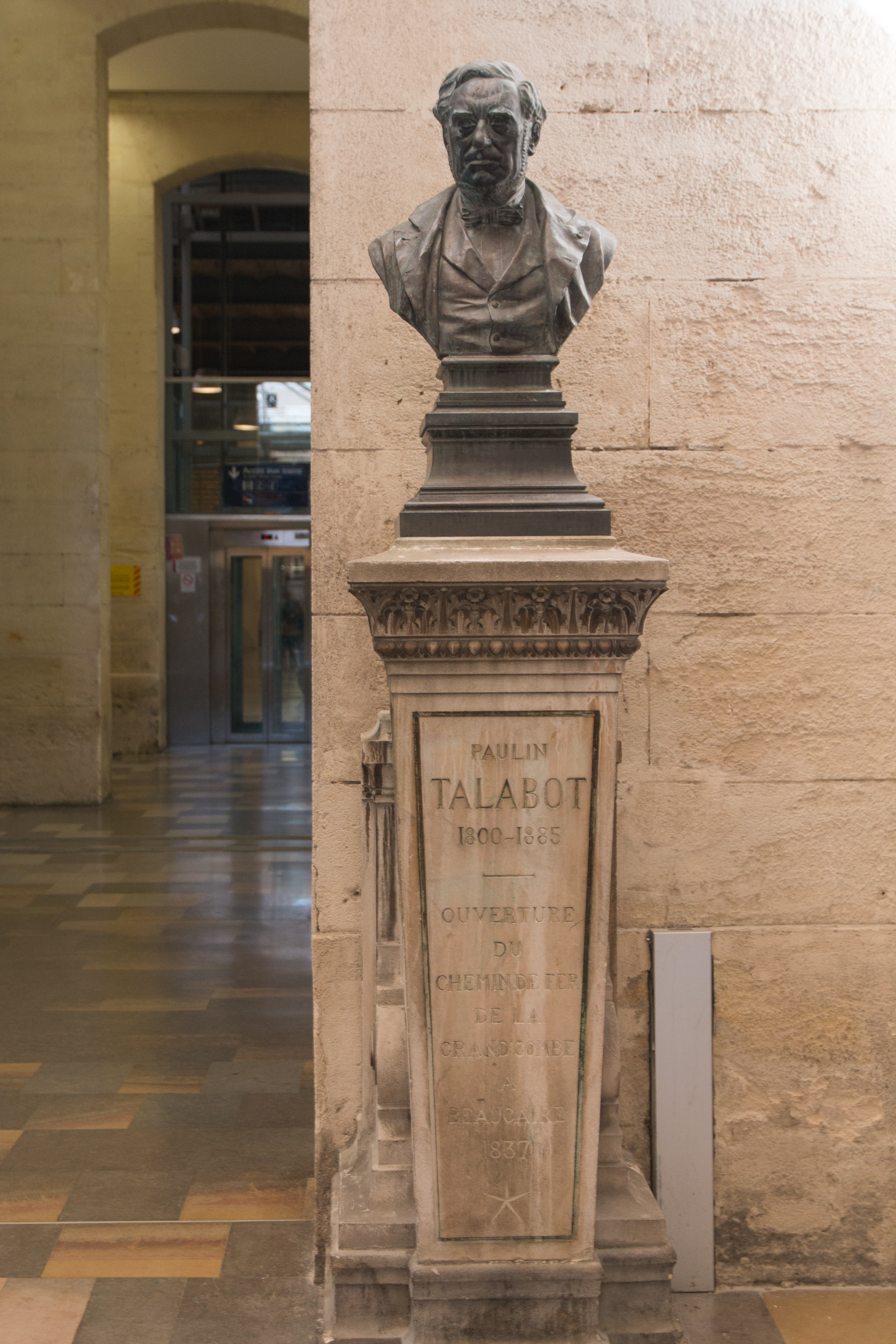 Paulin Talabot, builder of railway lines for the company of the Grand Combe.